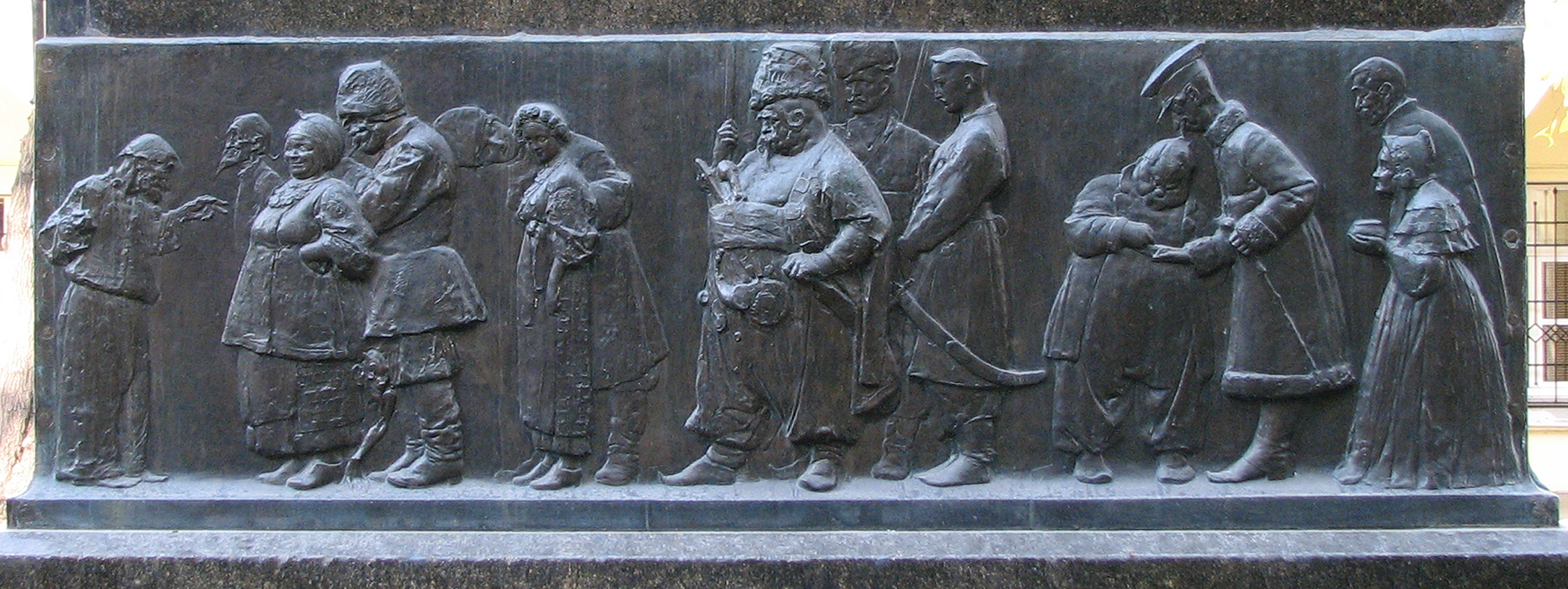 Moscow. A bas-relief framing a pedestal of a monument to Gogol in Nikitsky boulevard.